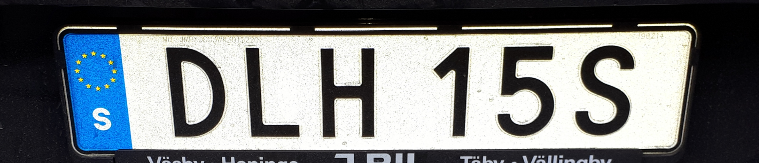 Swedish license plate issued 2019 with a letter instead of the third digit.